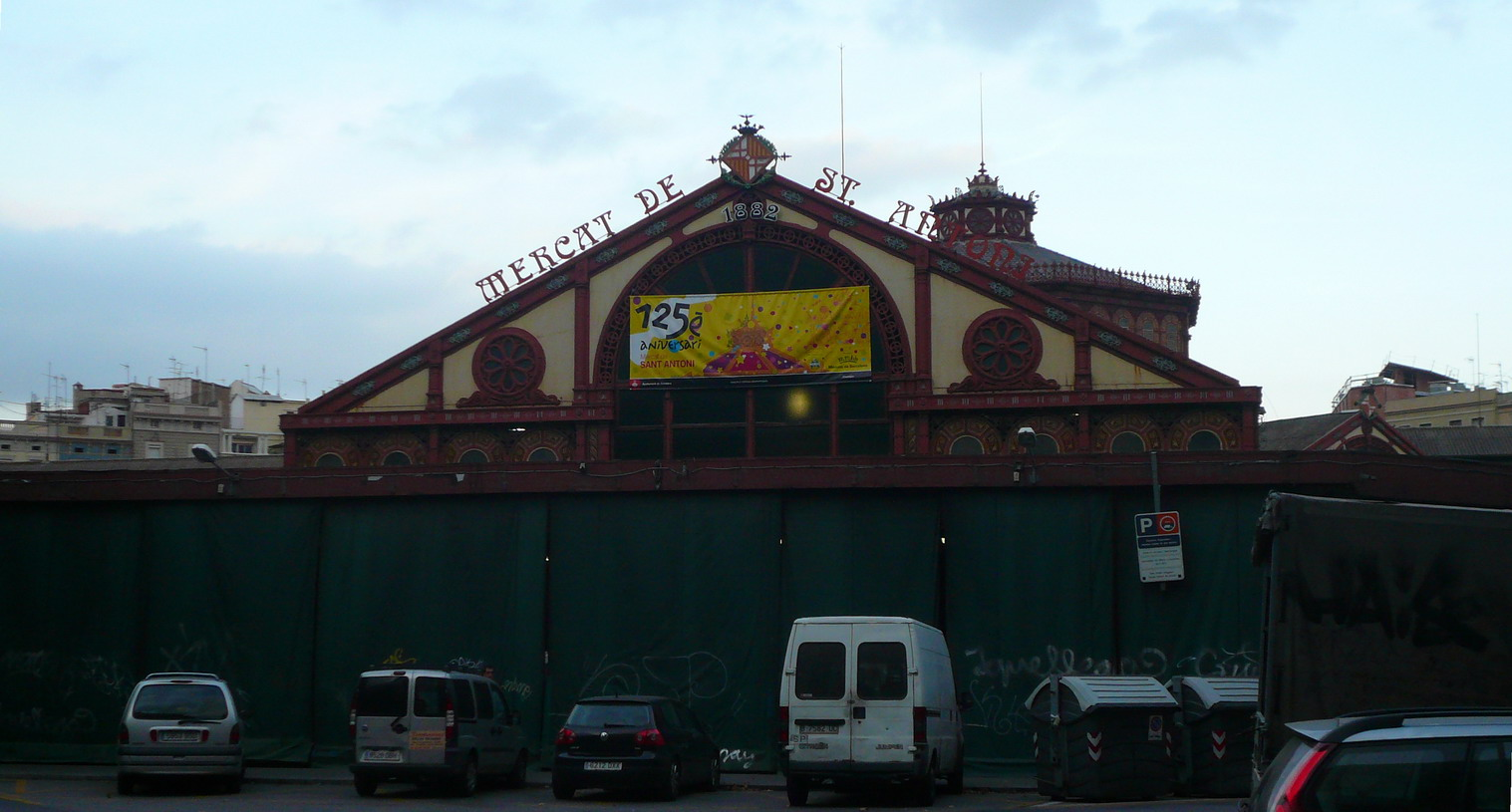 Sant Antoni market, Barcelona, Catalonia (Spain).